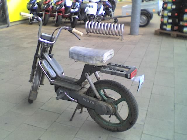 Pic of a Piaggio Bravo